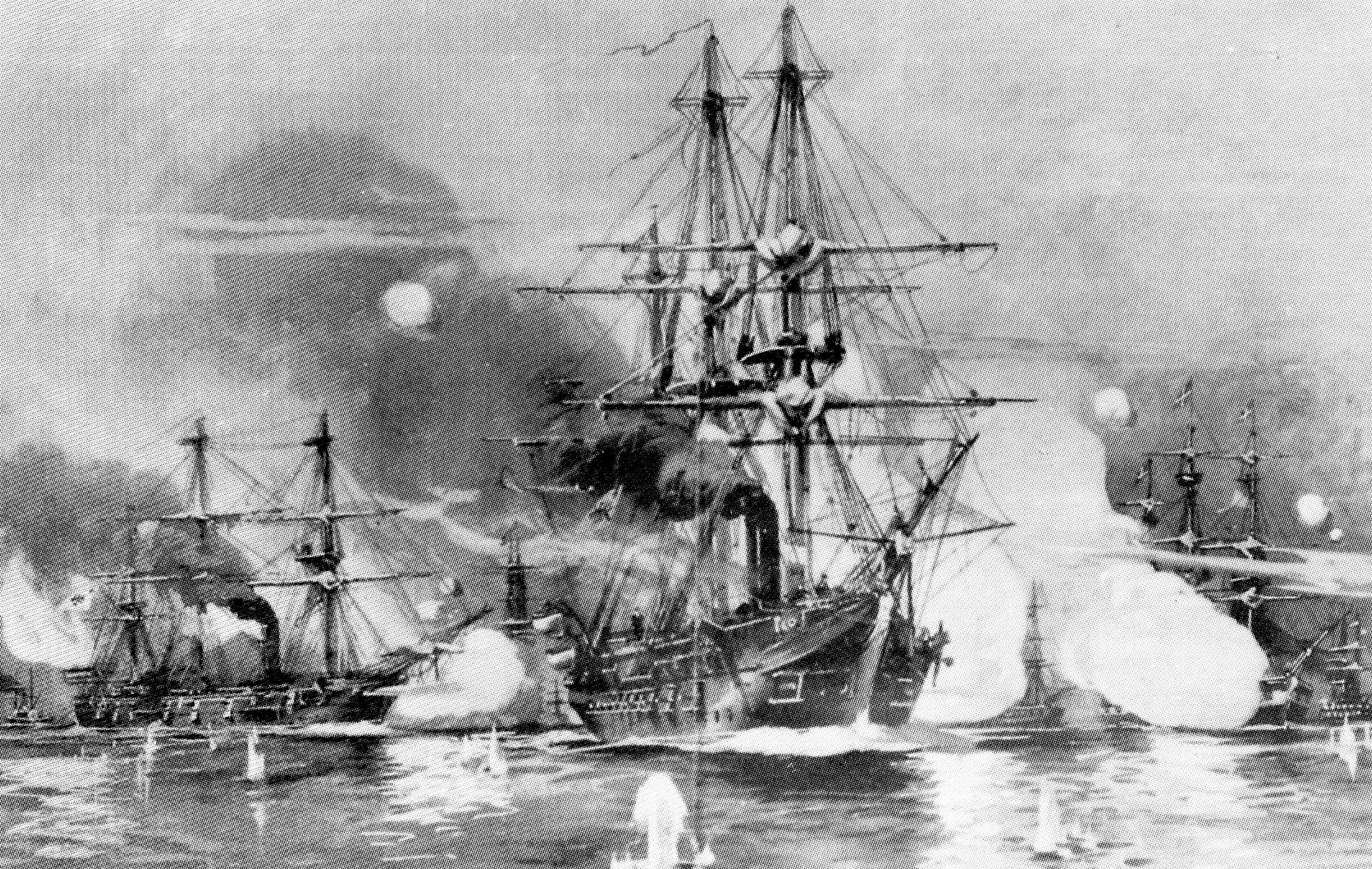 Naval battle at Jasmund, 17 march 1864. In the foreground the Prussian corvette SMS ARCONA. Painting by Willy Stöwer